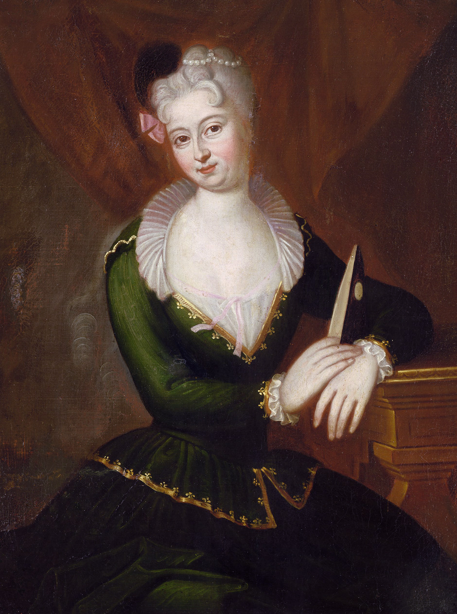 Sophia Susanna Charlotte von Platen, wife of General Dubislav Friedrich von Platen oil on canvas 65 x 50 cm